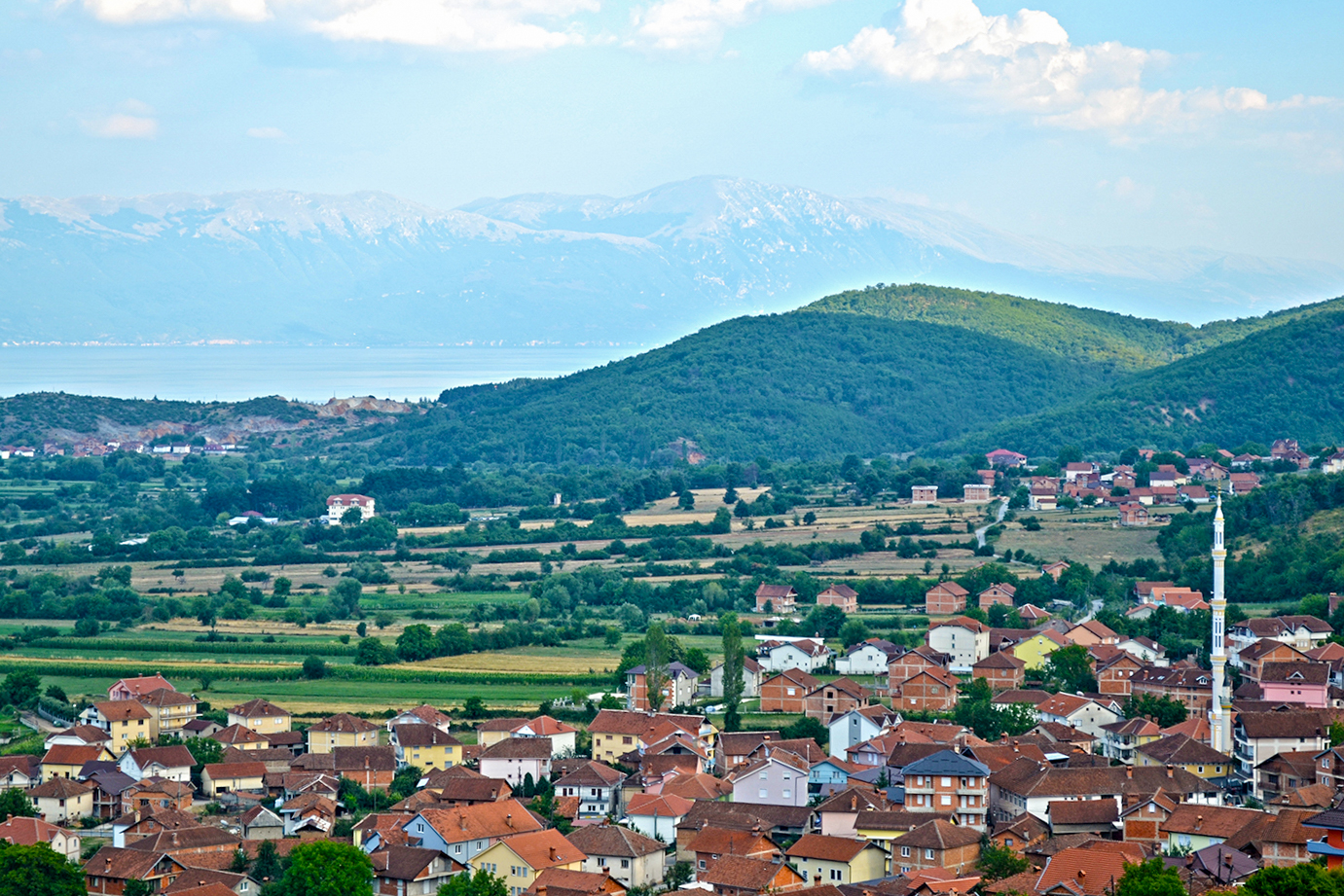 Village of Radolišta, in background Lake Ohrid, and Galičica.